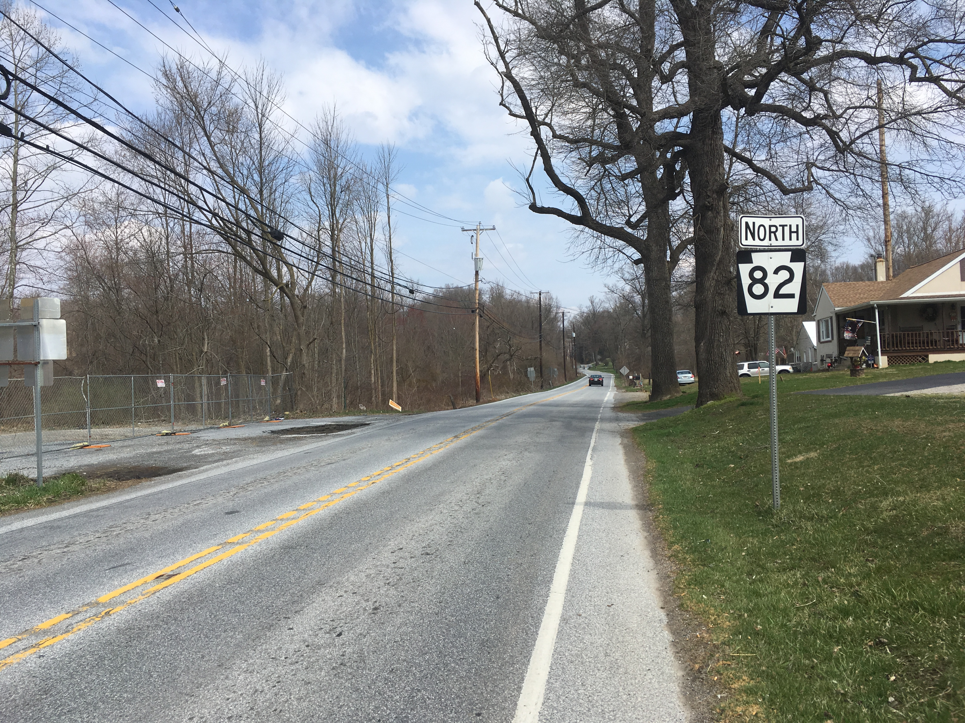 Northbound Pennsylvania Route 82 (Manor Road) past the intersection with Pennsylvania Route 340 (Kings Highway) in West Brandywine Township, Pennsylvania